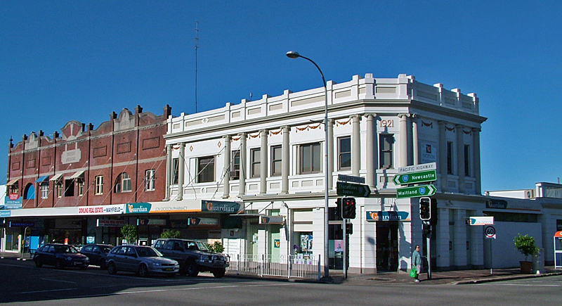 Shops on the corner of Hanbury St and Maitland Rd/Pacific Hwy, Mayfield.